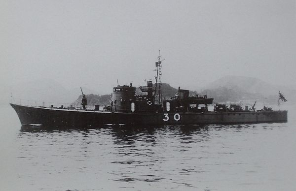 HIJMS SC-30